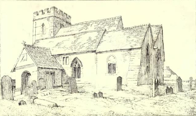 sketch of the church at Boughton Malherb, Kent.